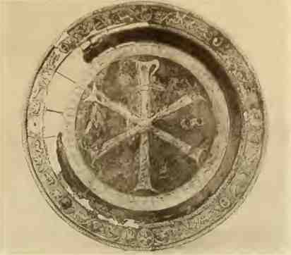 Silver plate of bishop Paternus of Tomi, V-VI cc. Found in 1921, now in Hermitage museum, SPb